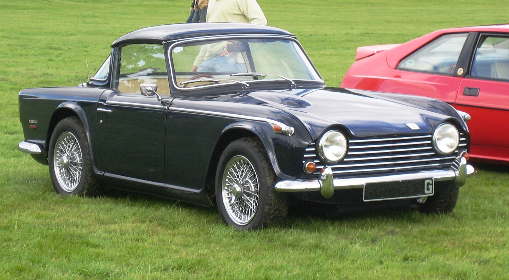 Triumph TR5 with the two piece "Surrey top" in place in a field in Hertfordshire